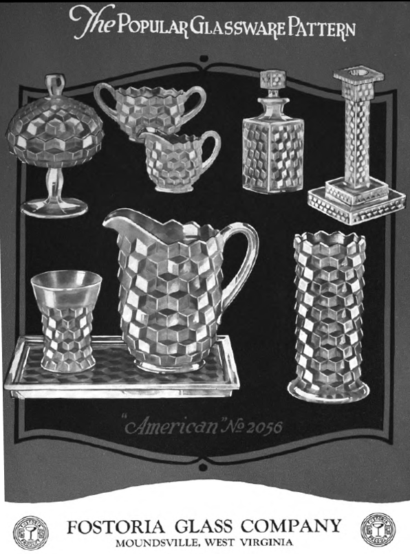 Advertisement for popular American pattern for glassware made by Fostoria Glass Company.